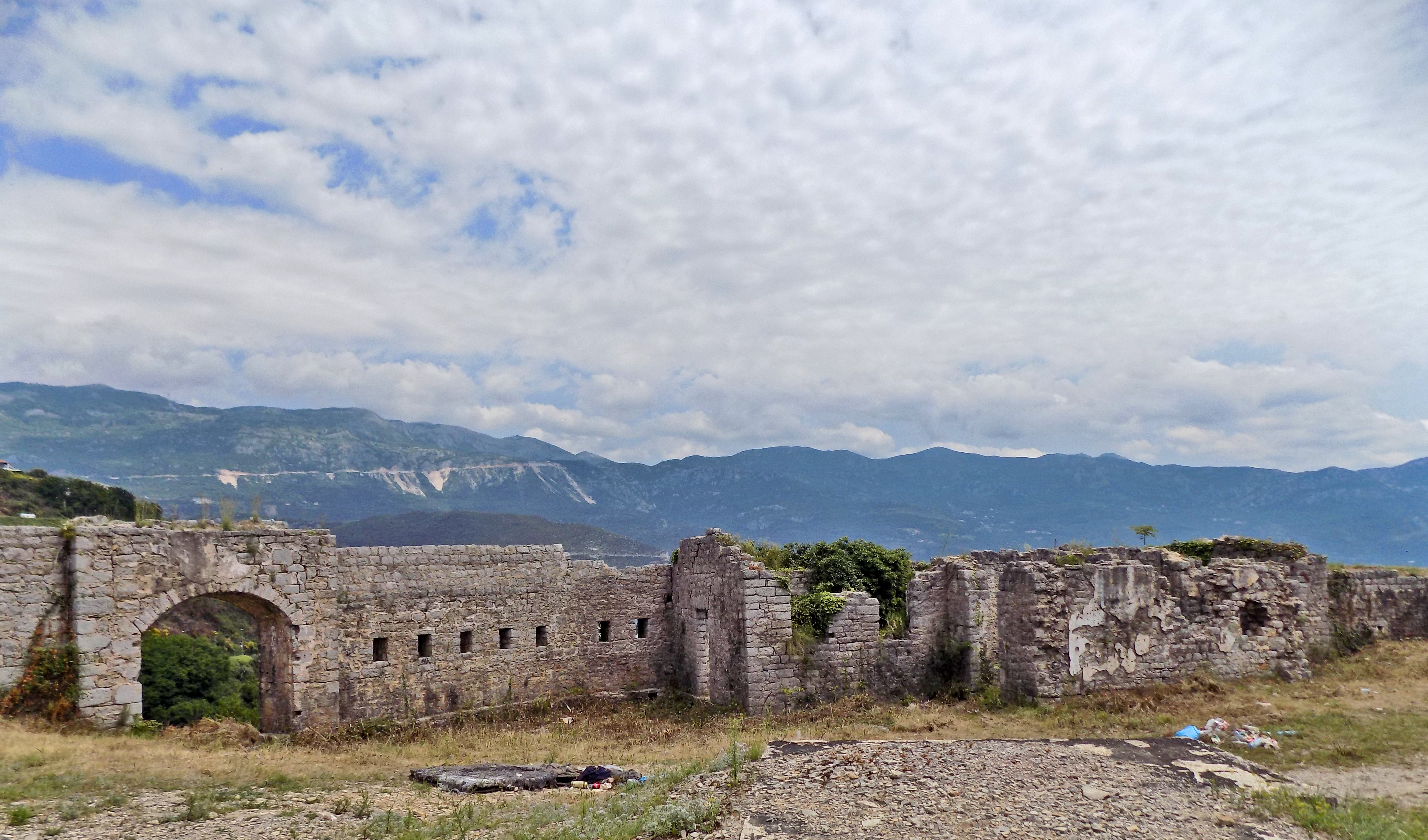 The remains of the Mogren fort on a hill above the beach of the same name, close to Budva (Montenegro)